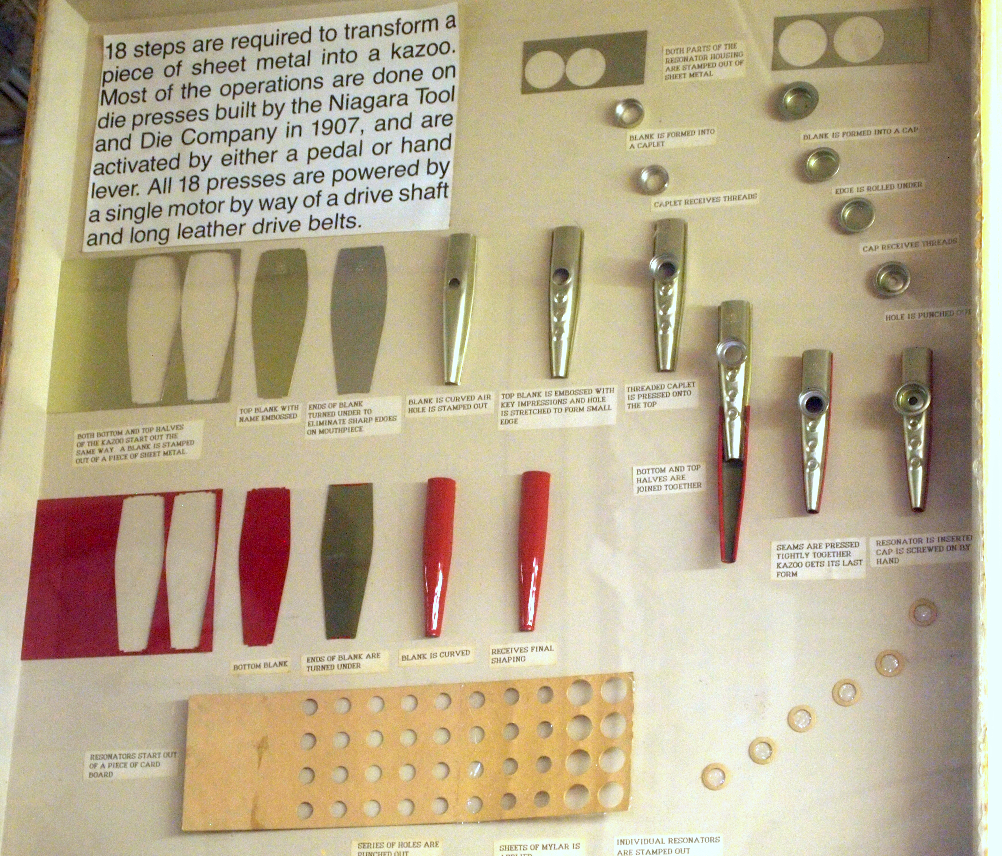 Kazoo manufacturing steps as shown at the Kazoo Factory and Museum